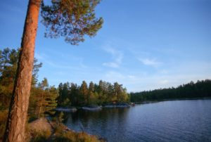 One of the small creeks in the south part of the lake Stora Gla